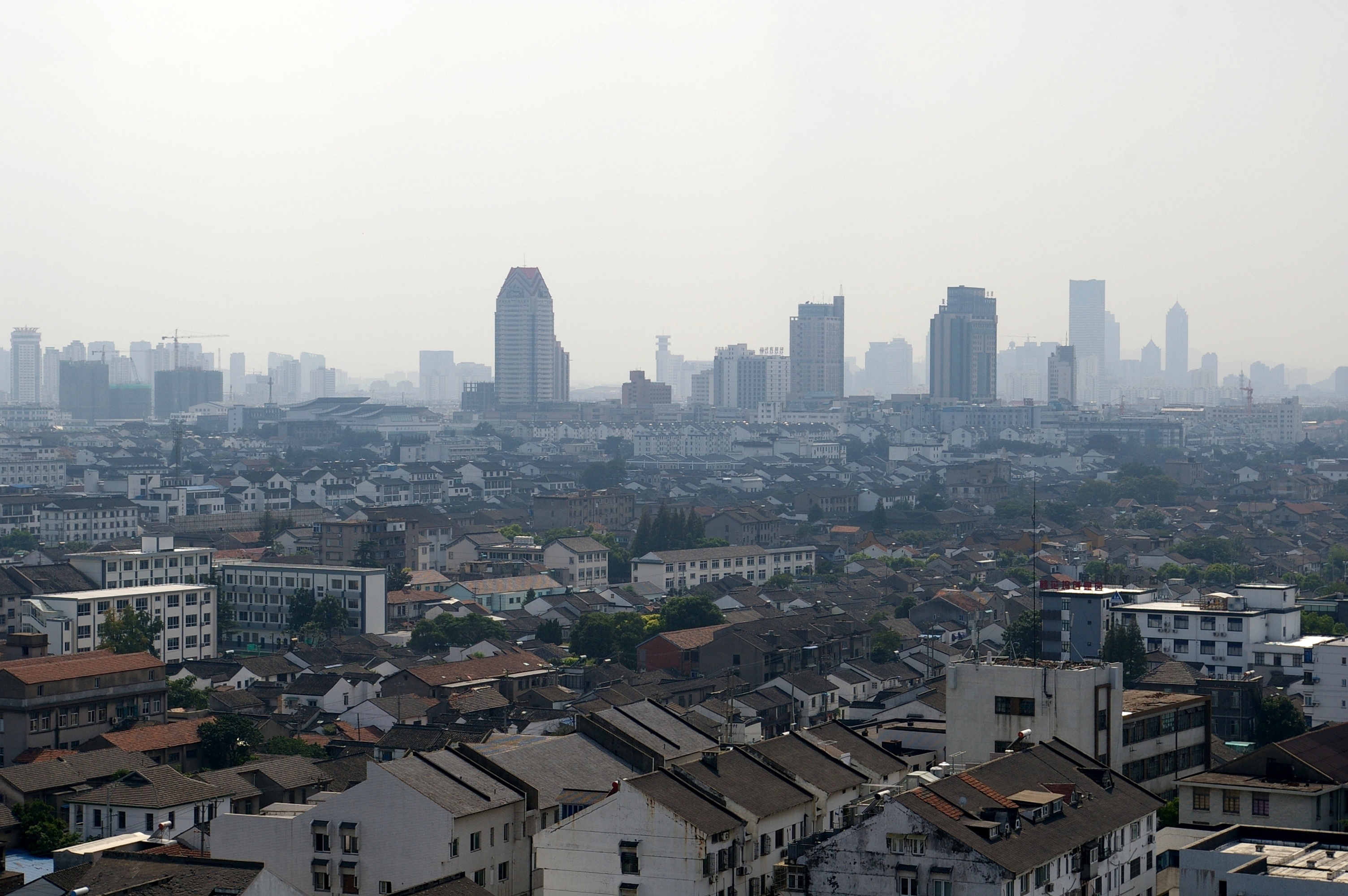 View on Suzhou from North Temple Pagoda